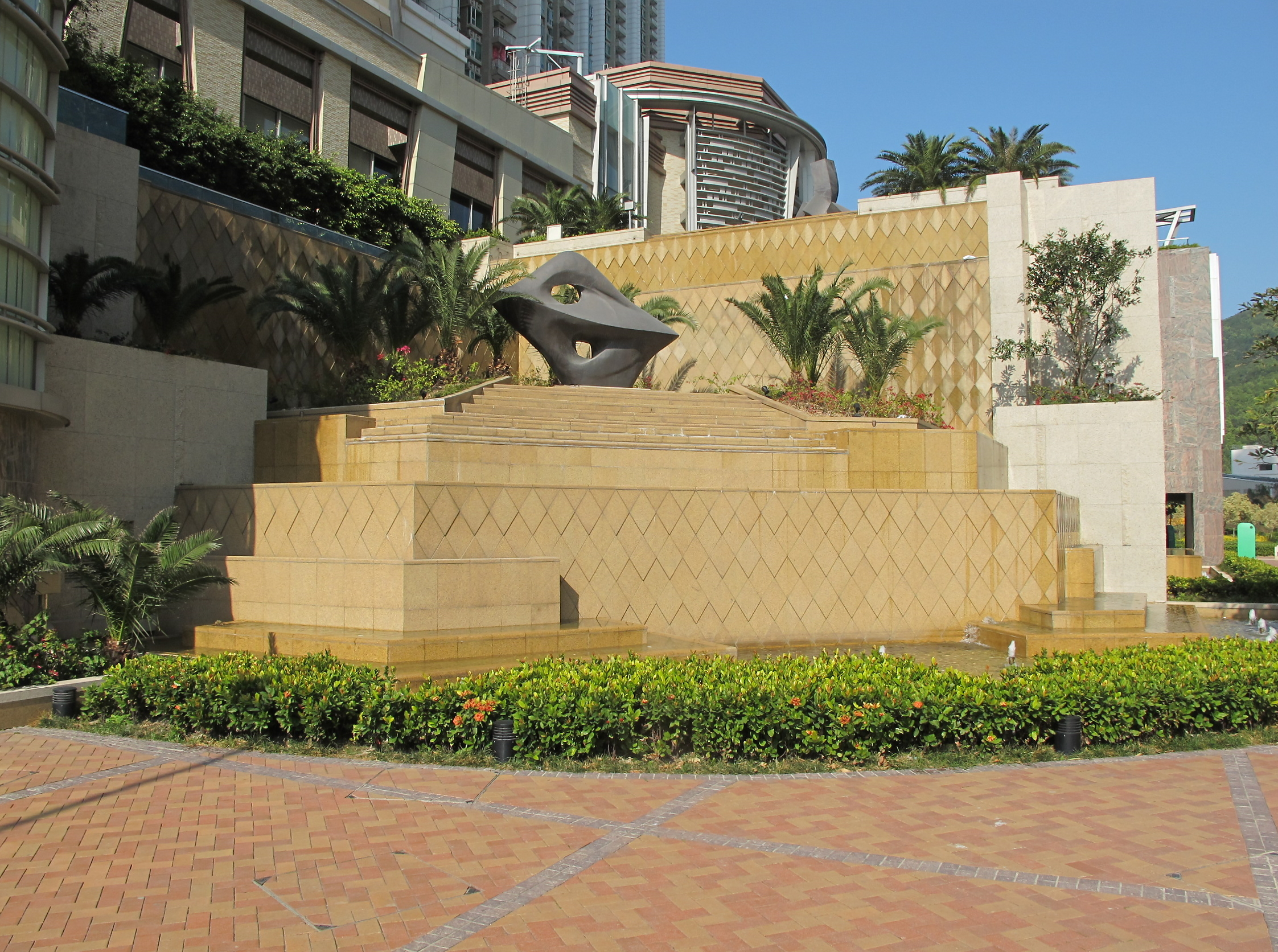 Lohas Park The Capital Water Decoration